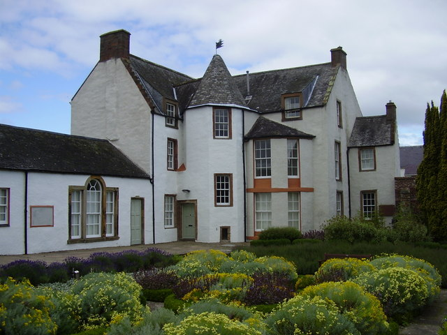 Haddington House, Haddington, Scotland Originally a home of the powerful Maitland family, now used in the community. It is the oldest house in Haddington, built 1689.